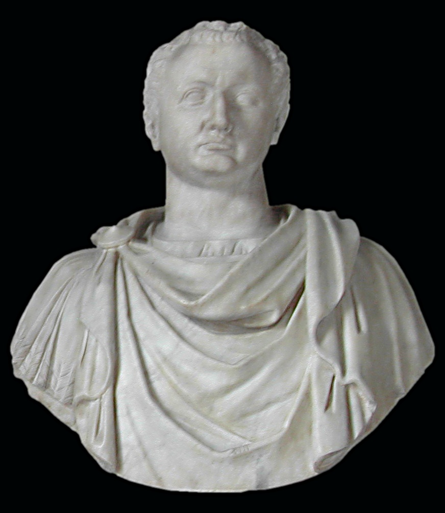 Titus of Rome.